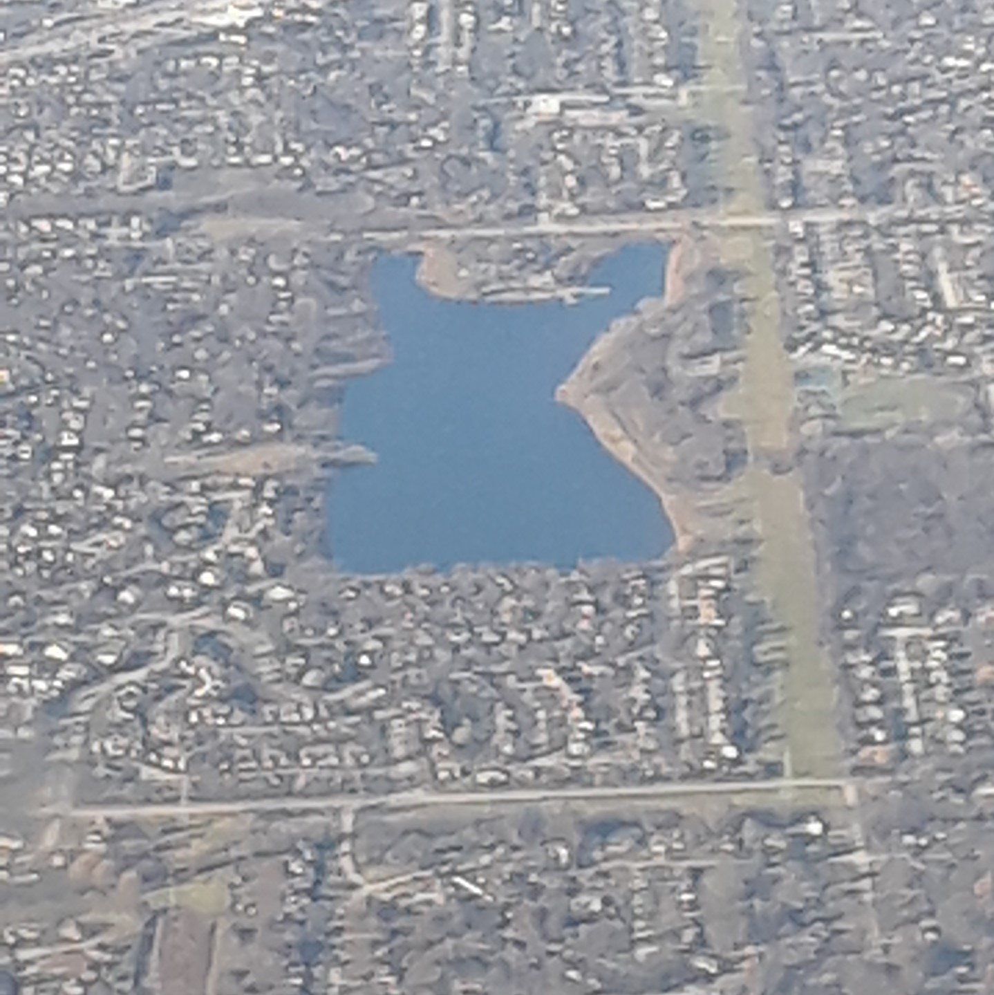 Aerial shot of Lake Arlington from the east